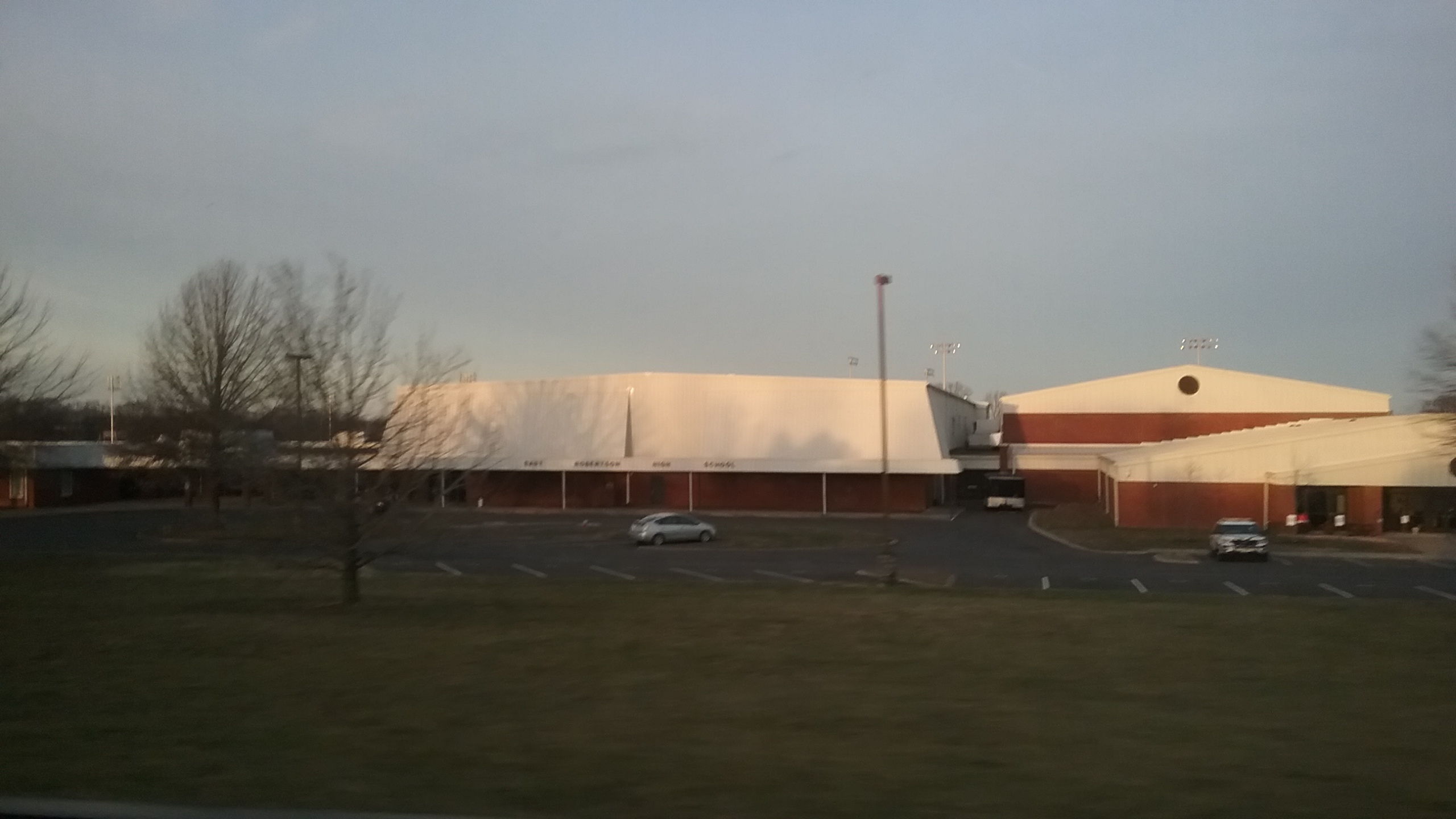 The image of the front of East Robertson High school in Cross Plains, TN Was taken on the morning of January 31, 2017